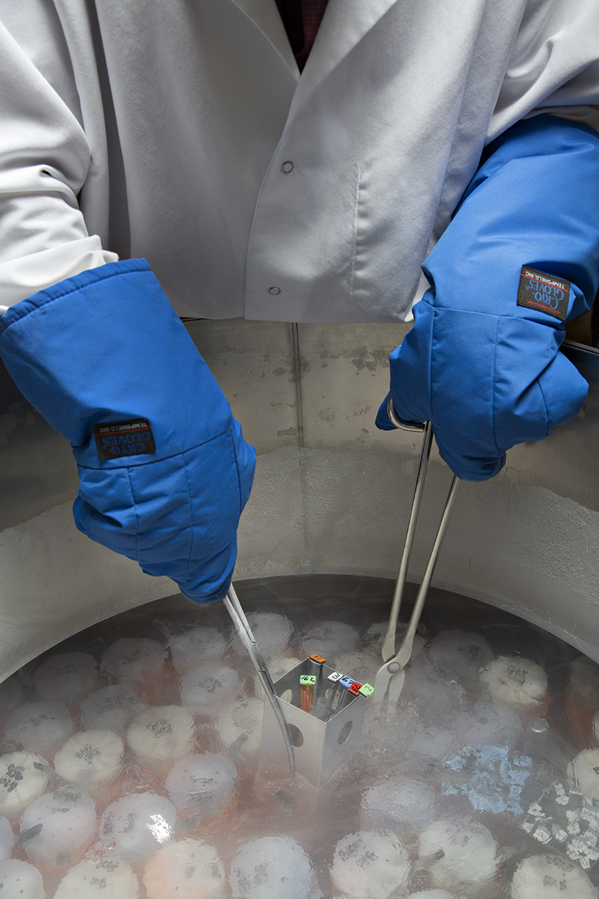 Livestock germplasm being frozen in liquid nitrogen.